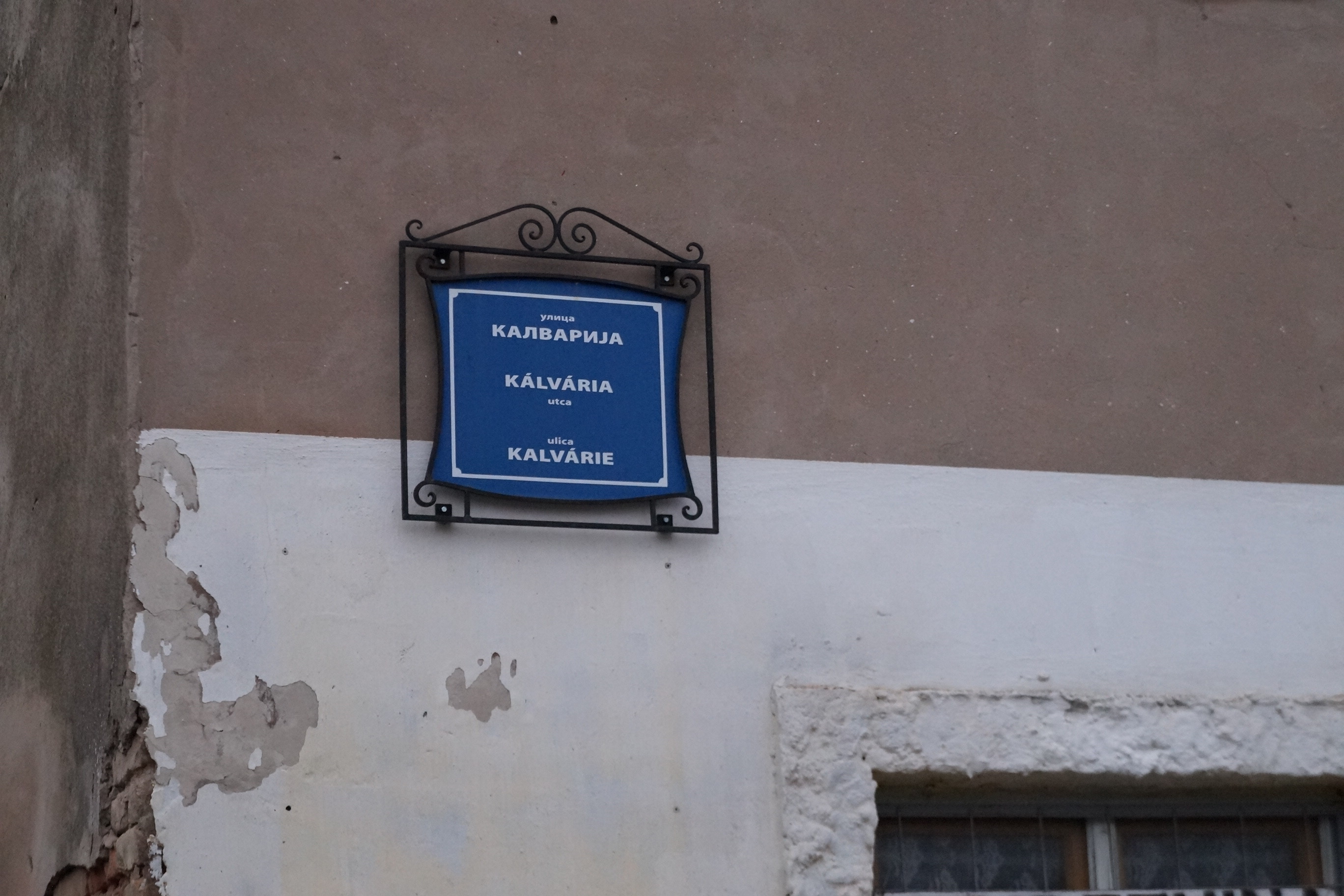 Calvary hill in Bajša, Serbia - the name of the street bears the same name